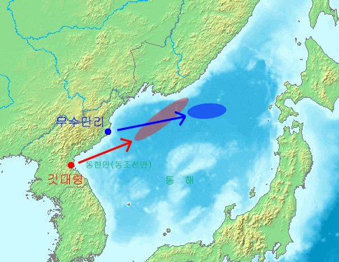 Missile launch in July 5th, 2006 by North Korea. Blue area means where the Taepodong seems to have impacted on Sea of Japan.